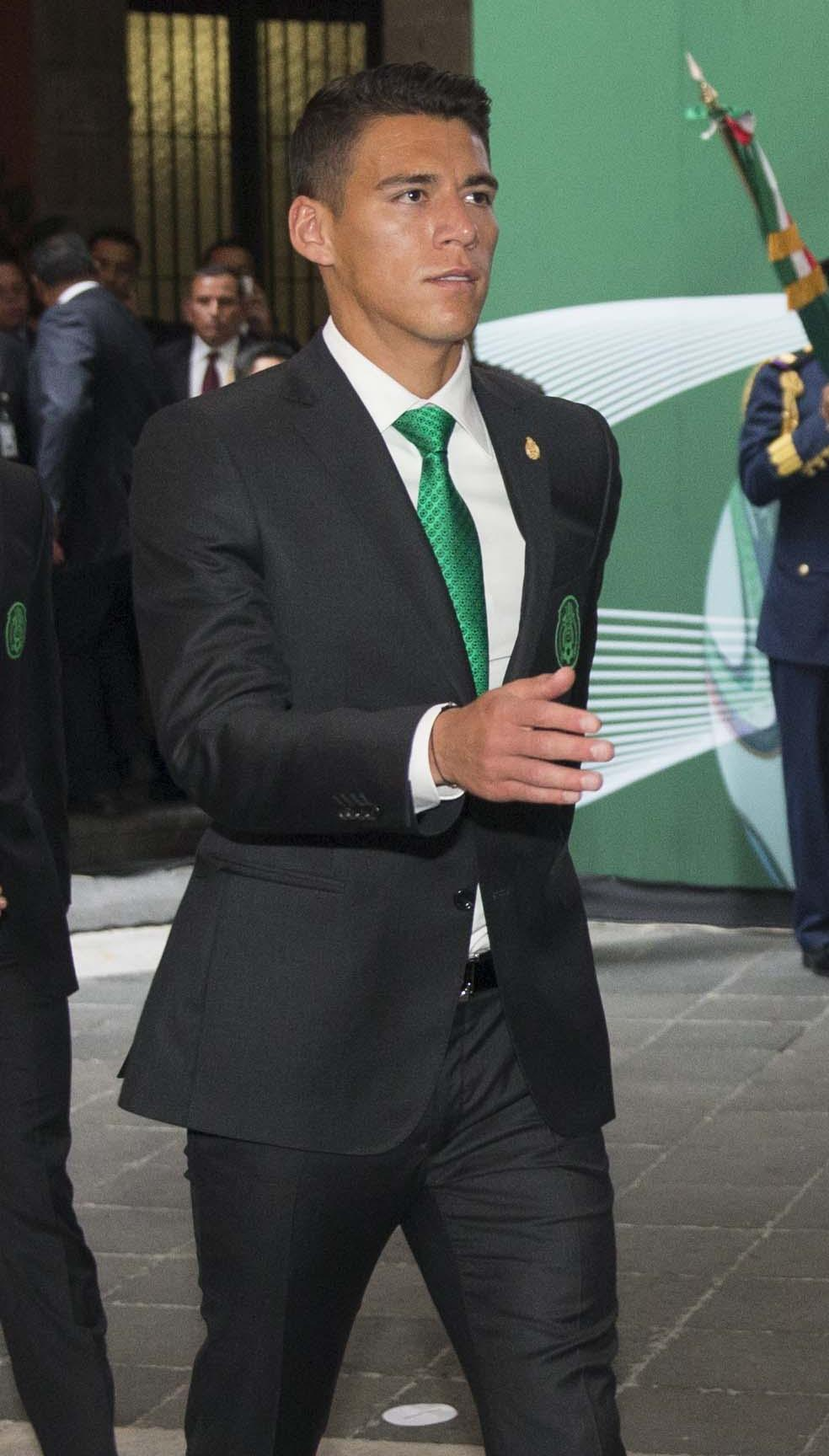 Mexican footballer Hector Moreno